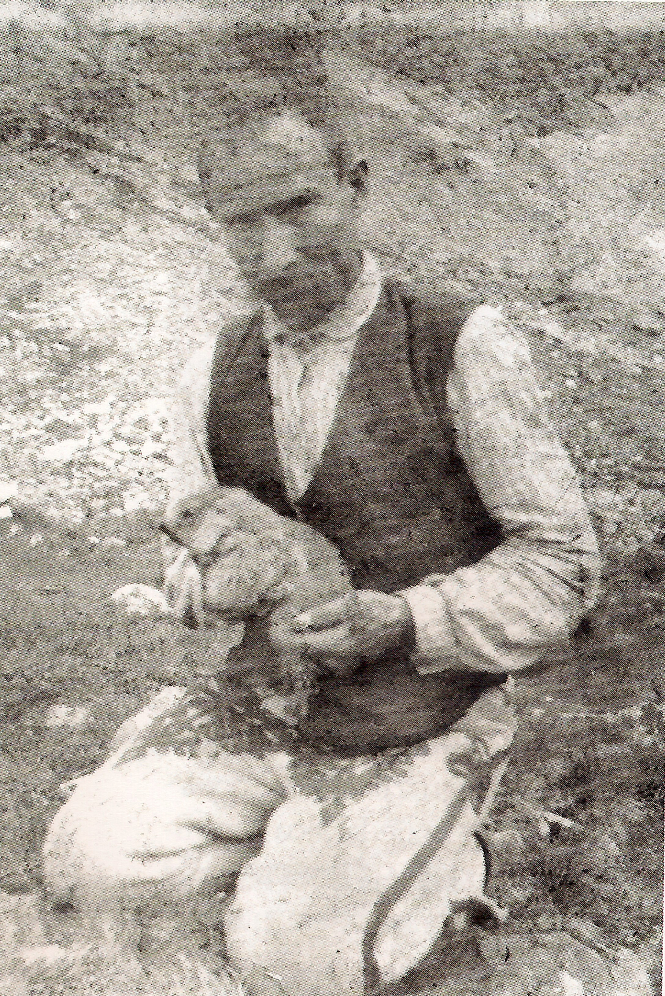 Klemens Bachleda with a marmot; Tatra Mountains